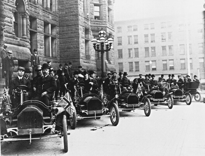 Line of Russell cars, by the Russell Motor Car Company, sitting outside Toronto City Hall, Ontario, Canada. The builder, T.A. Russell, sits beside the driver in the first car. T.A. (Tommy) Russell was a prominent east-end resident, and the man behind the Canadian Cycle and Motor Company Ltd. (CC&M for short), and was later president of the Massey-Harris (later Massey-Ferguson) company.